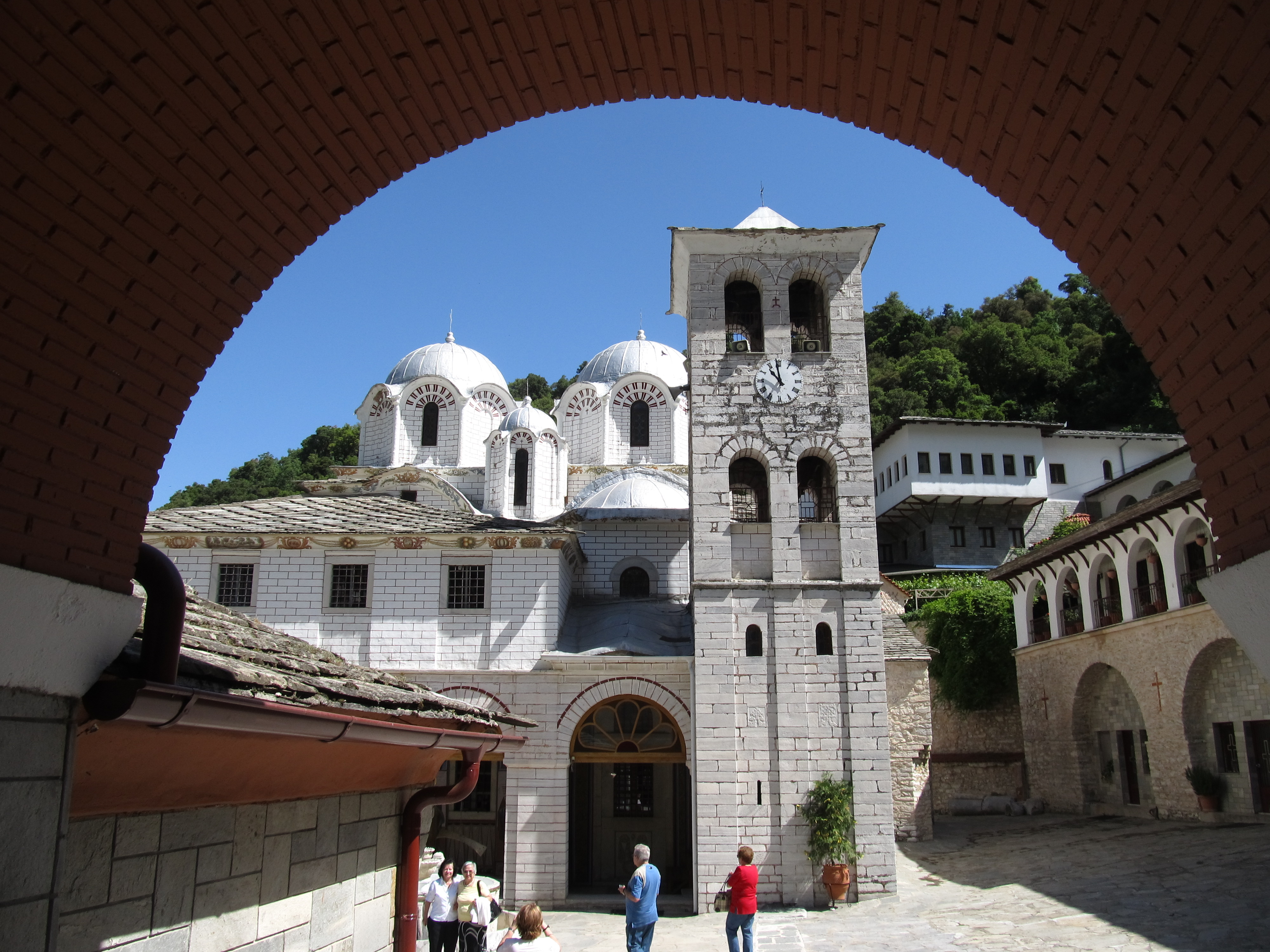 Monastery of Panagia Eikosifinissa, Greece